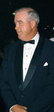 Depicted person: Grant Stockdale – American businessman and diplomat